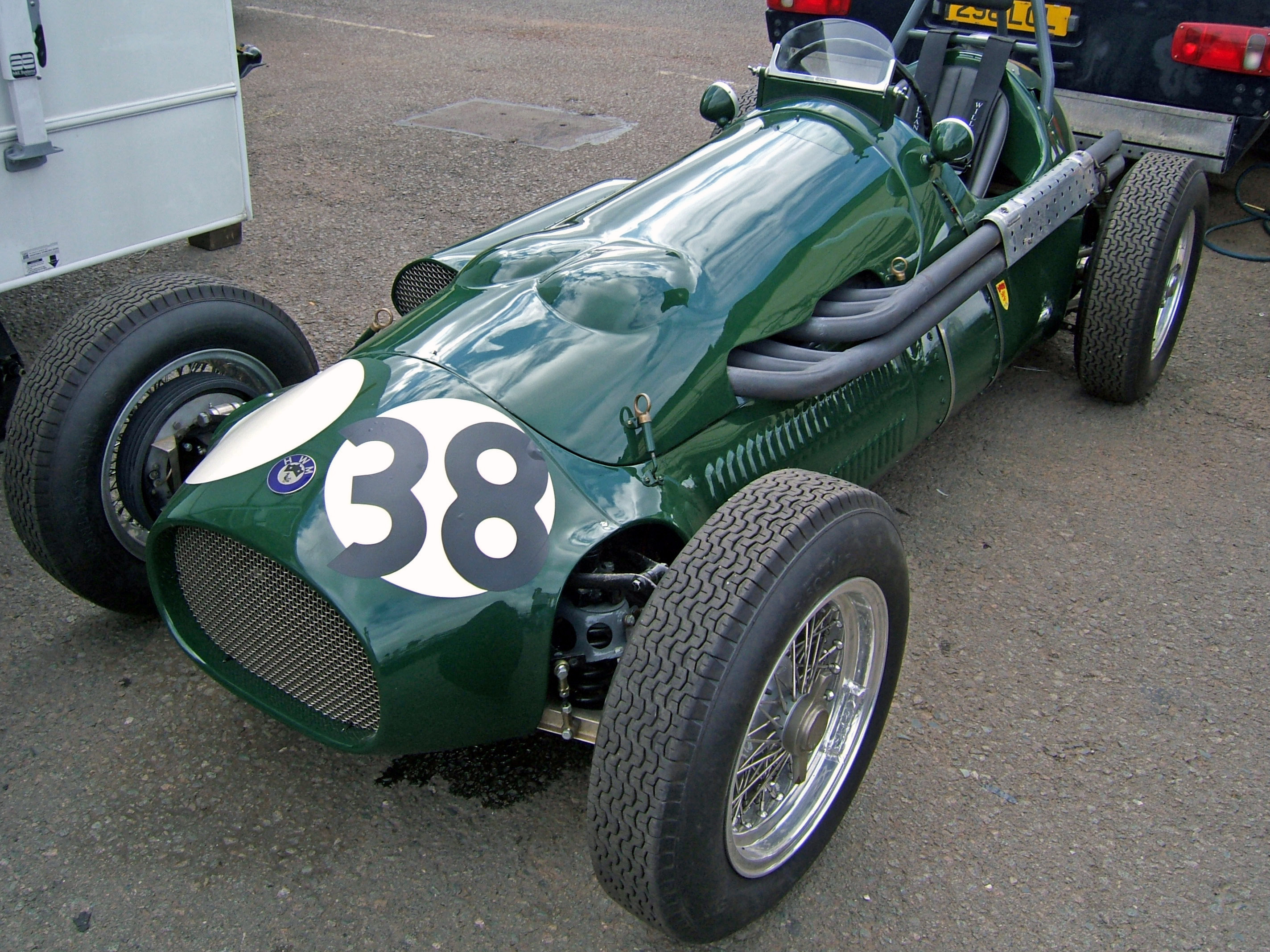 A 1952 HWM Formula Two car, waiting in the paddock of the VSCC SeeRed race meeting, Donington Park, September 2007.